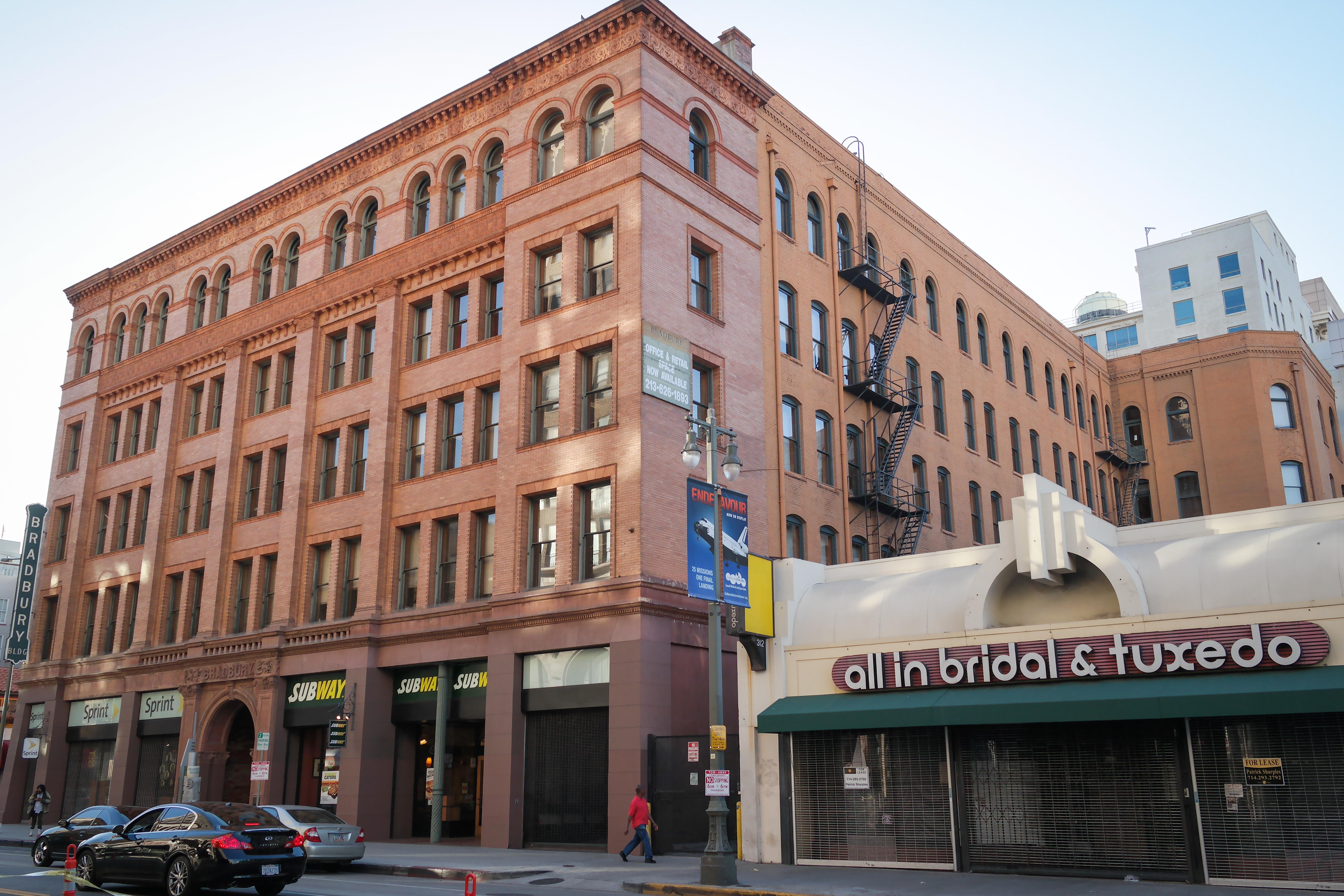 Outside the Bradbury Building